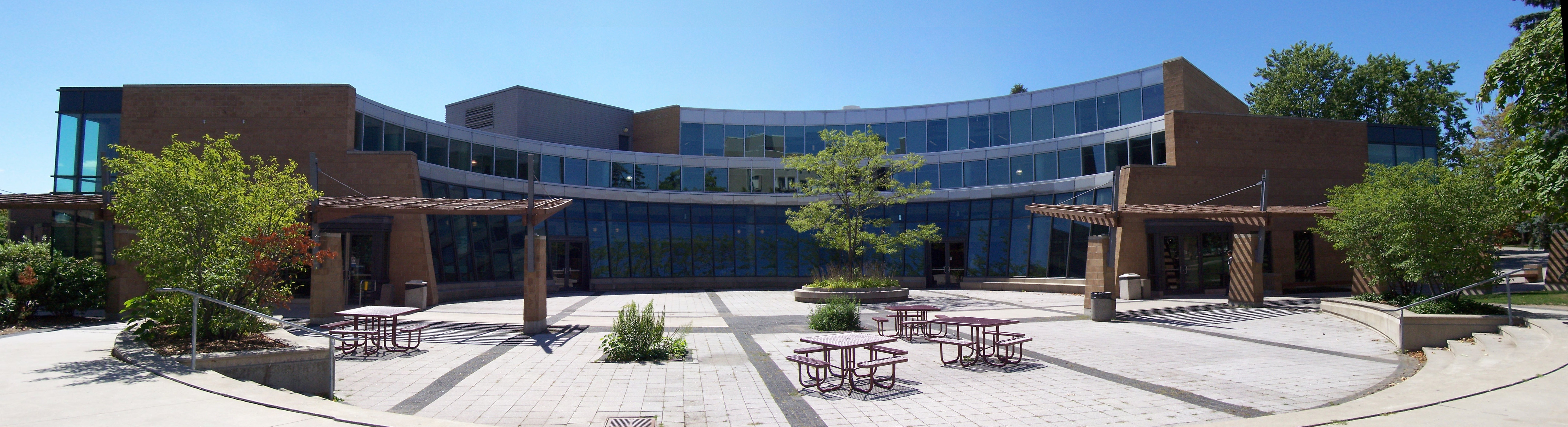 A stitched panorama of the Student Life Centre Coutryard at the University of Waterloo. Taken-August 2007